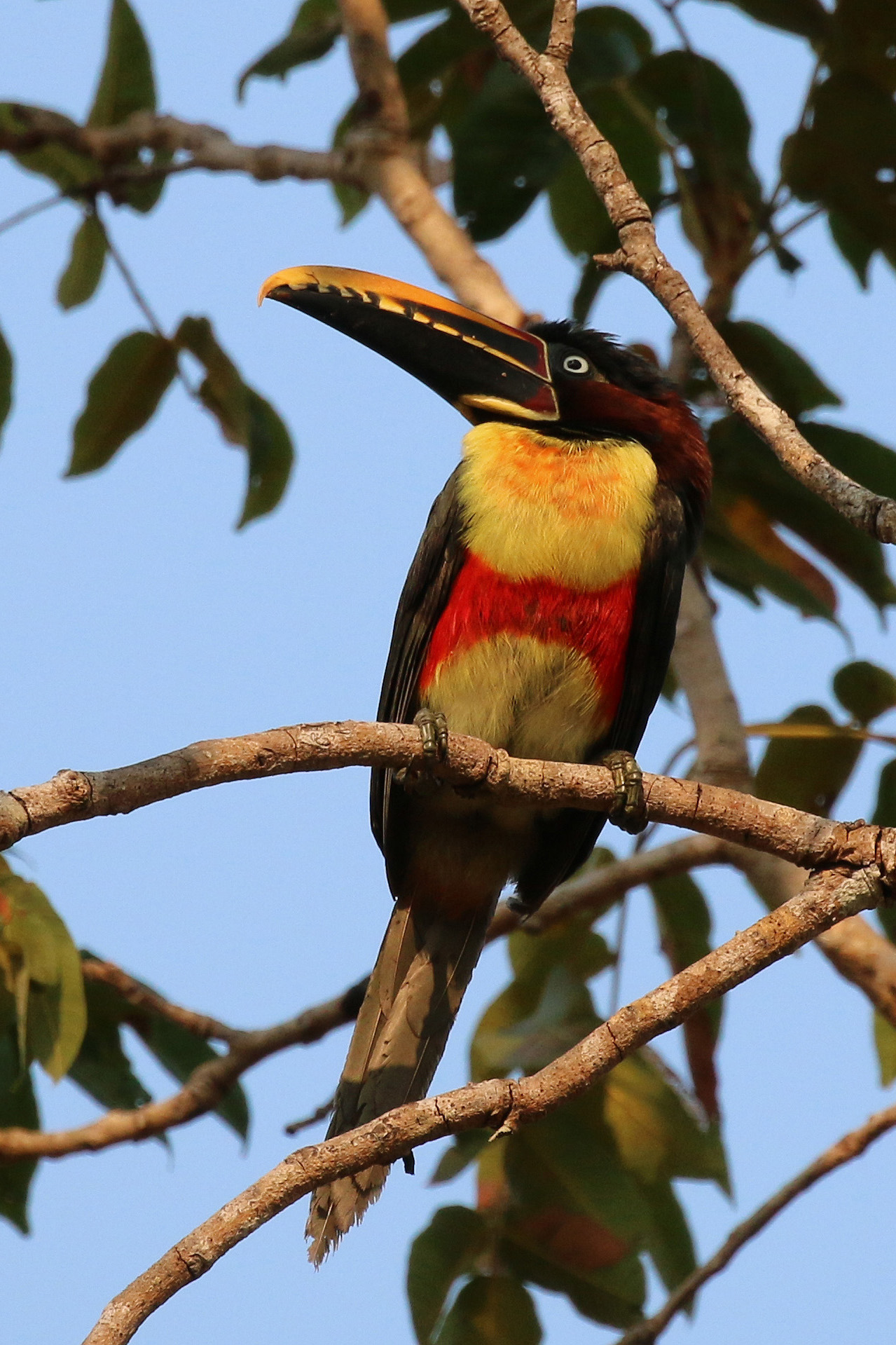 Chestnut-eared aracari (Pteroglossus castanotis), Pantanal, Brazil